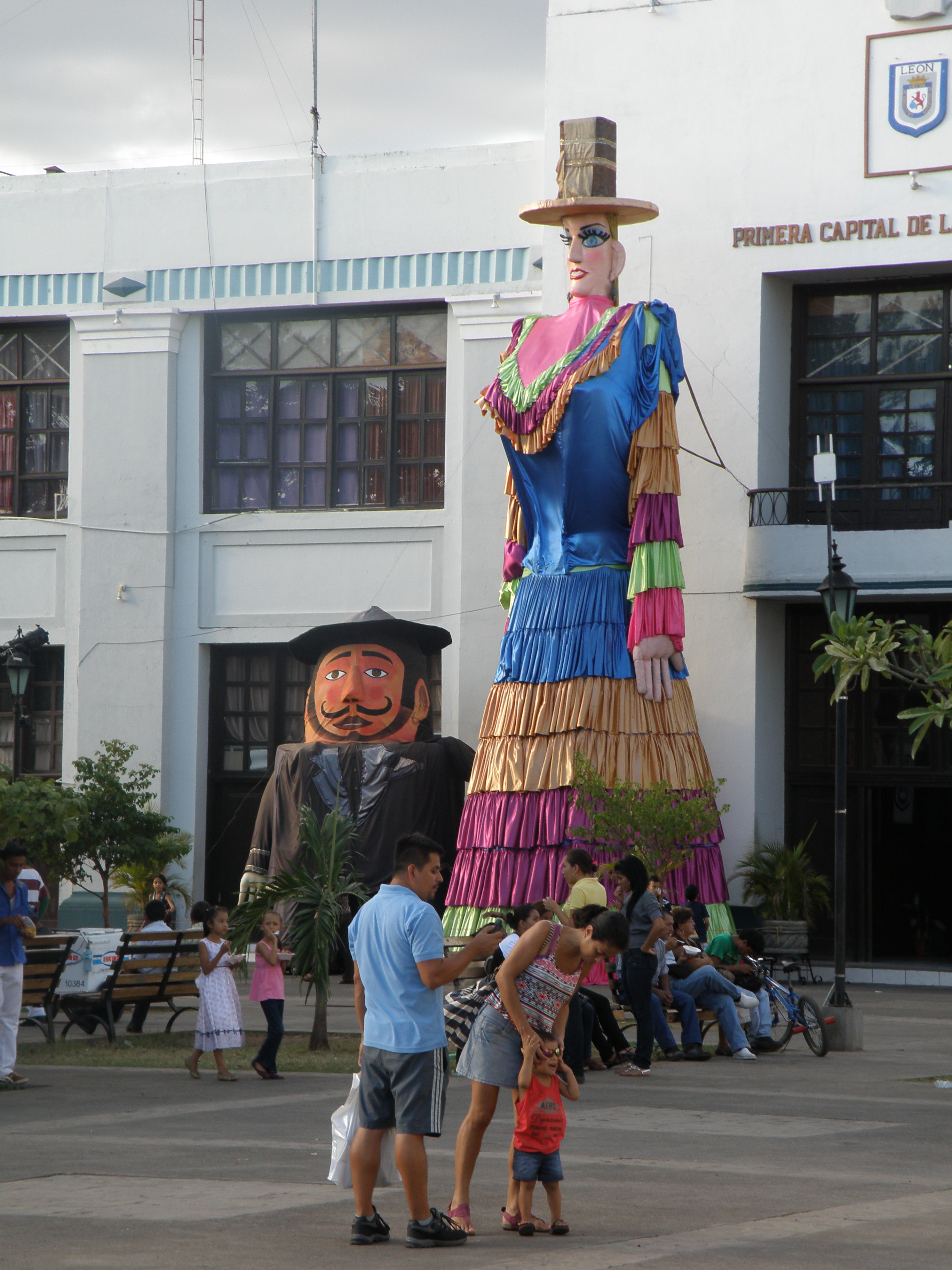 The "Gigantones" are representations of characters from the period of Spanish colonization that come to brighten the popular festivals of several Hispanic countries. The big-headed dwarf - El Enano cabezón - recites satirical and critical verses by the city's notables